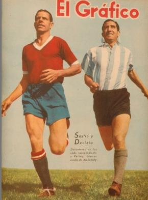 Cover of El Gráfico with these rival teams Independiente and Racing players: Sastre and Devizia